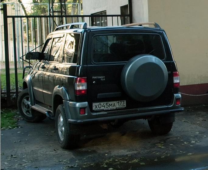 ZAZ-965 parked near Jerusalem church in Moscow. UAZ Patrior for comparison